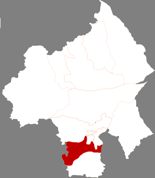 Location of Kharchin Banner in Chifeng City, China